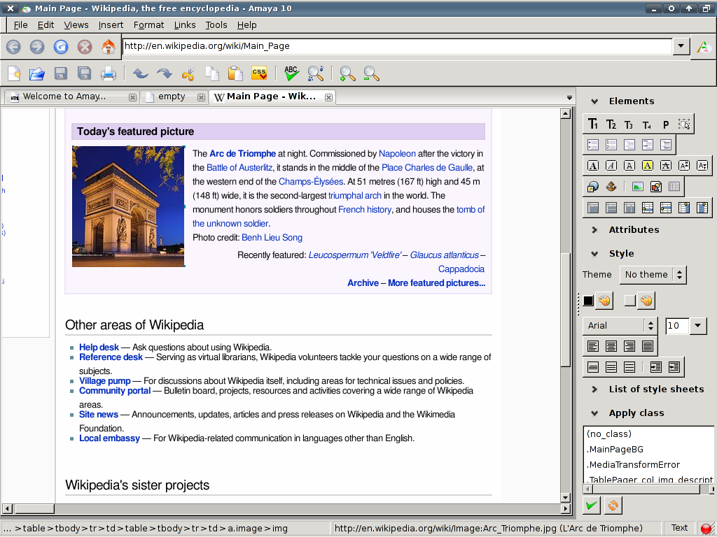 W3C Amaya web browser and editor, with default settings (full toolbar mode), showing a part of the English Wikipedia page, with a featured image from Wikimedia Commons. Debian GNU/Linux “lenny”, Xfce 4 with the “Therapy” titlebar theme, and “Raleigh” color theme.